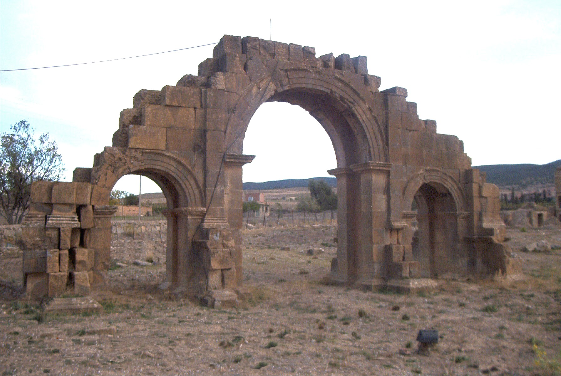 Ancient Roman triumphal Arch of Septimius Severus — Lambaesis, Algeria.